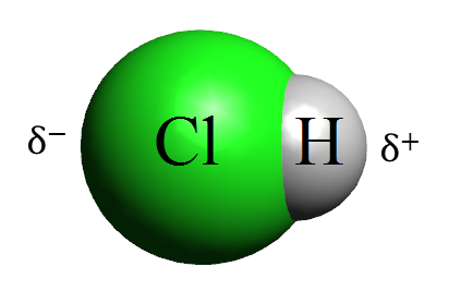 Dipole molecule HCl